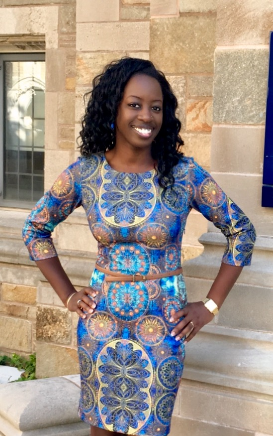 Portrait Kamissa Camara